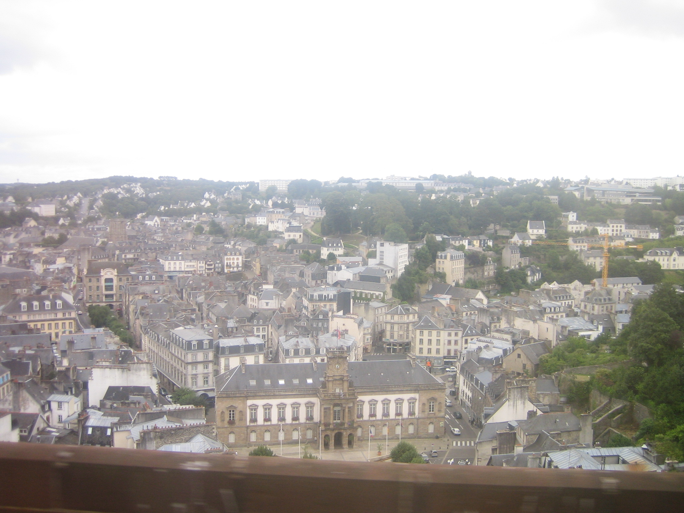 Morlaix from above